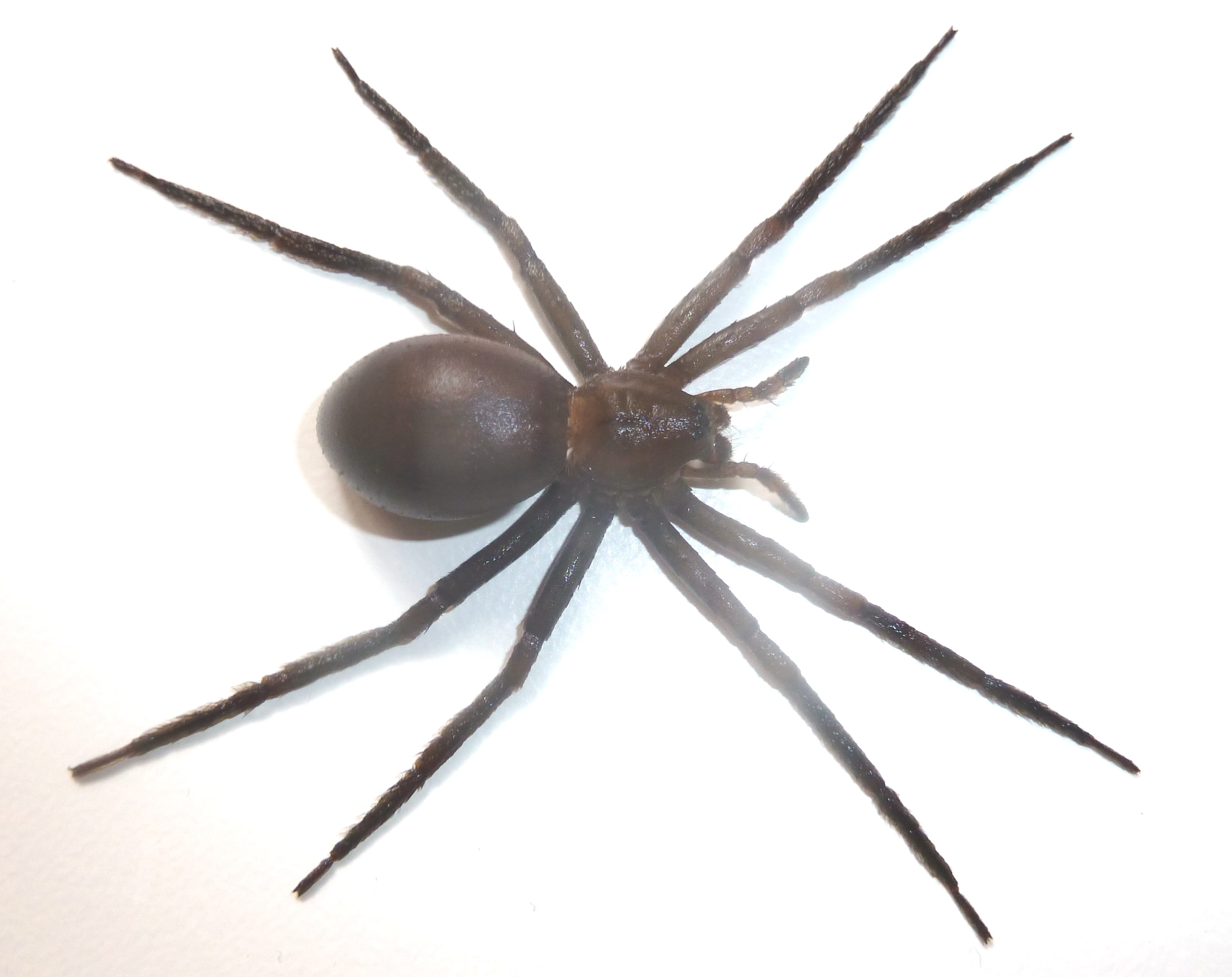 A female Fish-eating spider, Nilus curtus, collected in bulrush, in Faerie Glen, Pretoria. Structure of the epigynum confirmed identification.